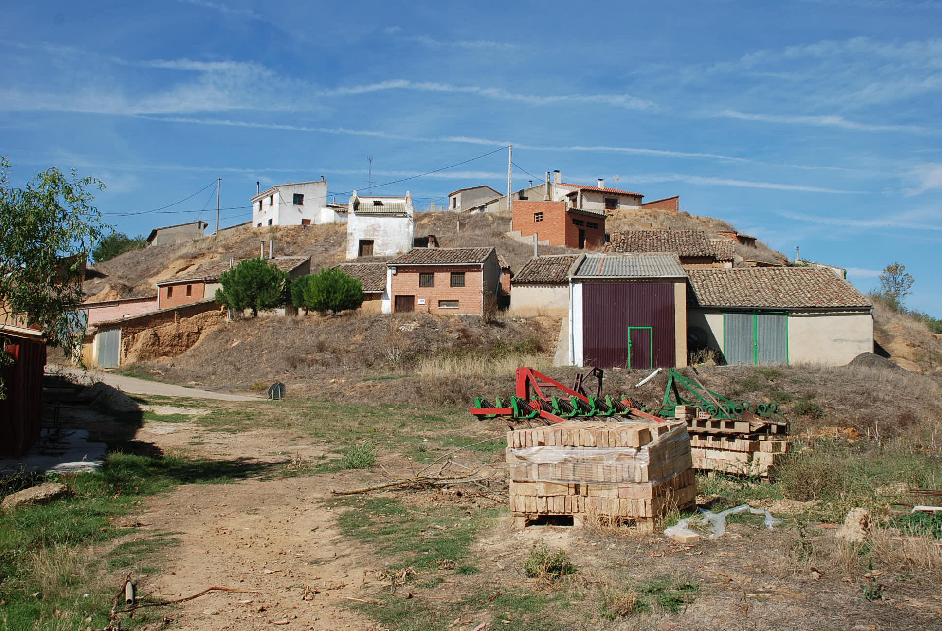 Wine cellars in Abia de las Torres (Palencia, Castile and León).